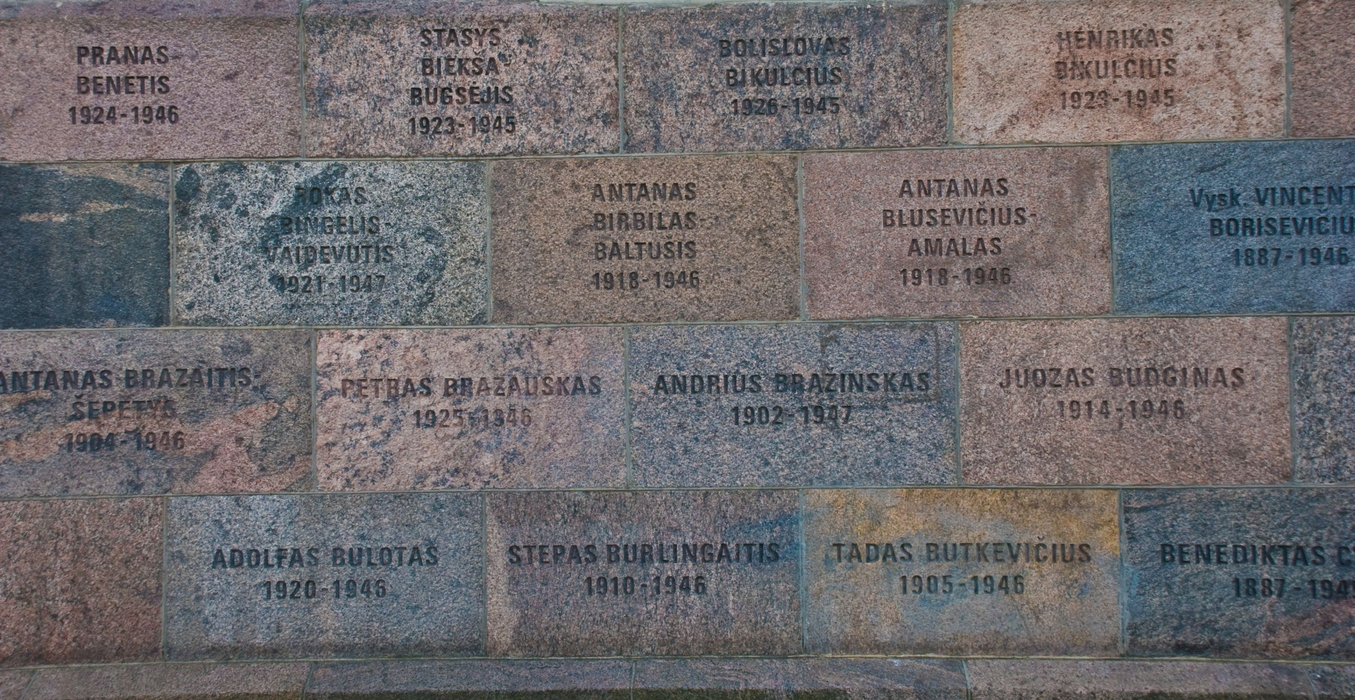 Wall of former headquarters of KGB across from Lukiškės Square, Vilnius, Lithuania. Each stone is engraved with the name of a Lithuanian partisan who was executed within.